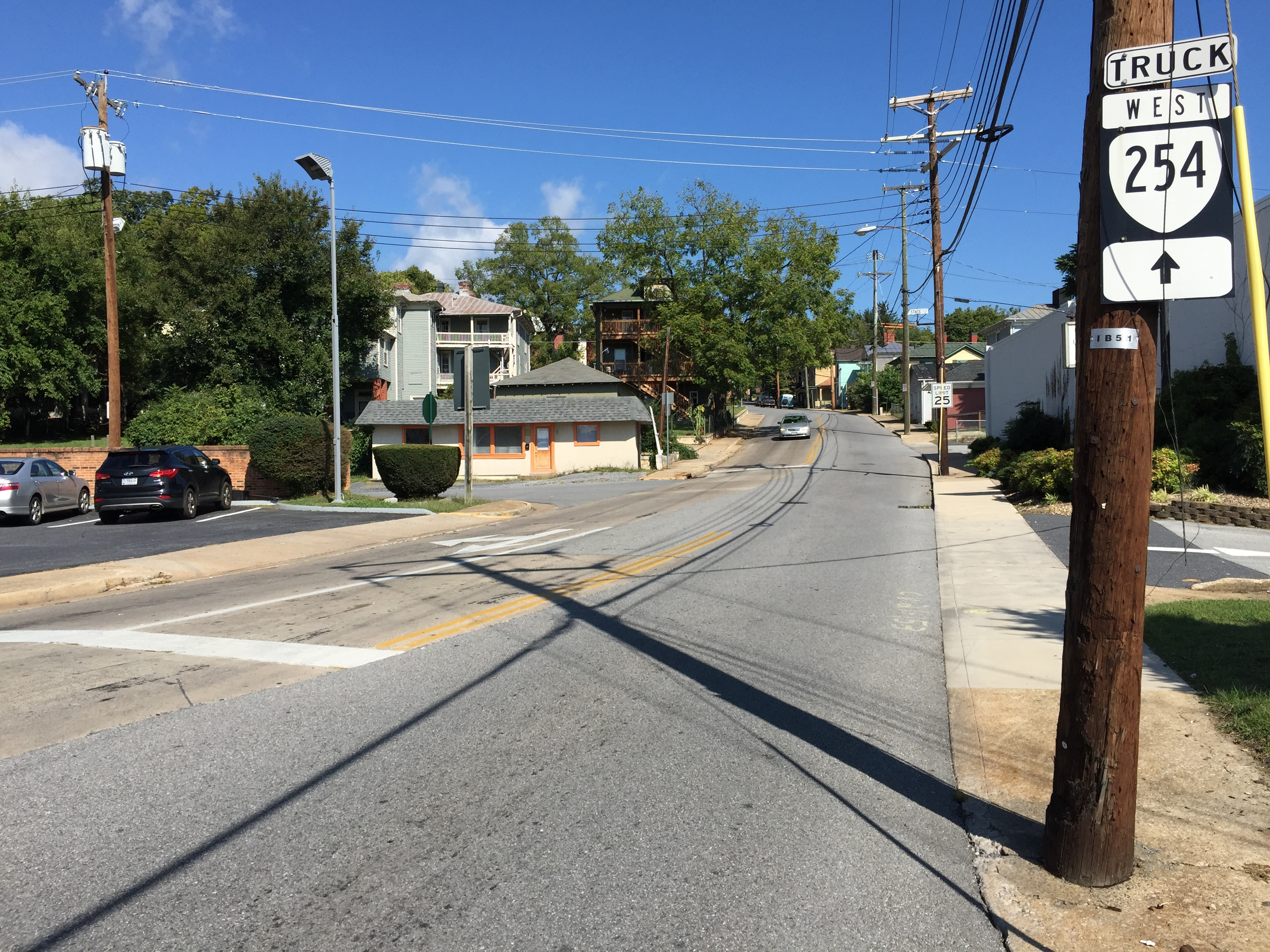 View west along Virginia State Route 254 Truck (Coalter Street) at U.S. Route 11, U.S. Route 11 Business, U.S. Route 250 and Virginia State Route 254 (Greenville Avenue and Commerce Road) in Staunton, Virginia